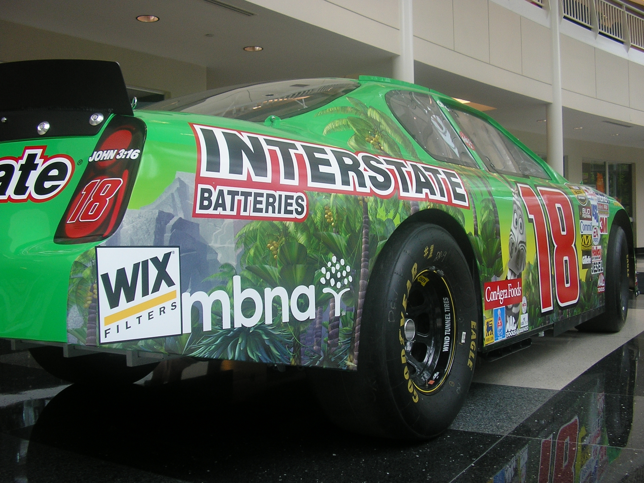 The #18 NASCAR Nextel Cup stock car, currently driven by Bobby Labonte. Taken at the Joe Gibbs Racing headquarters in Huntersville, North Carolina on July 7, 2005.